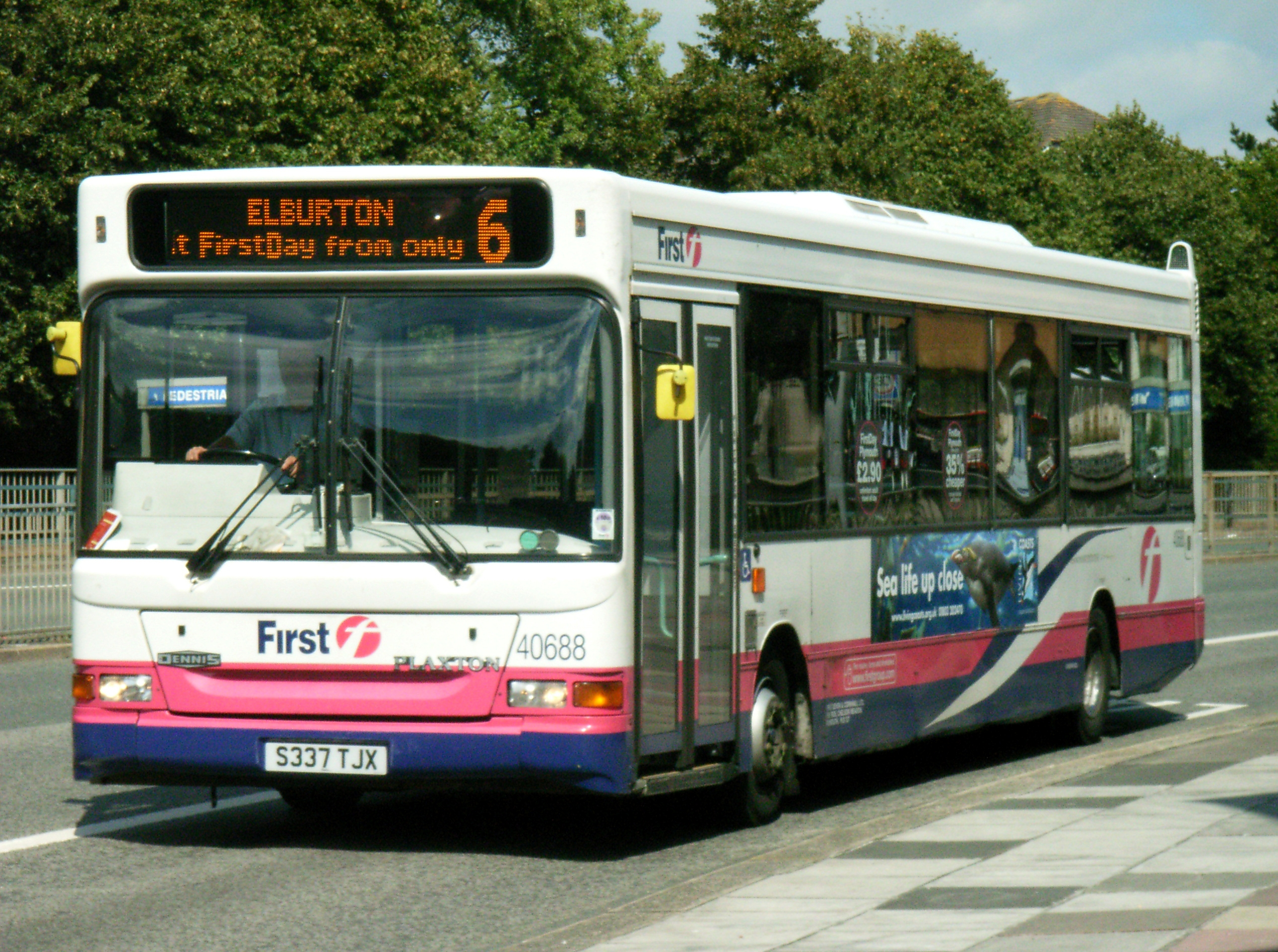 29 August 2007 Western Approach Plymouth.